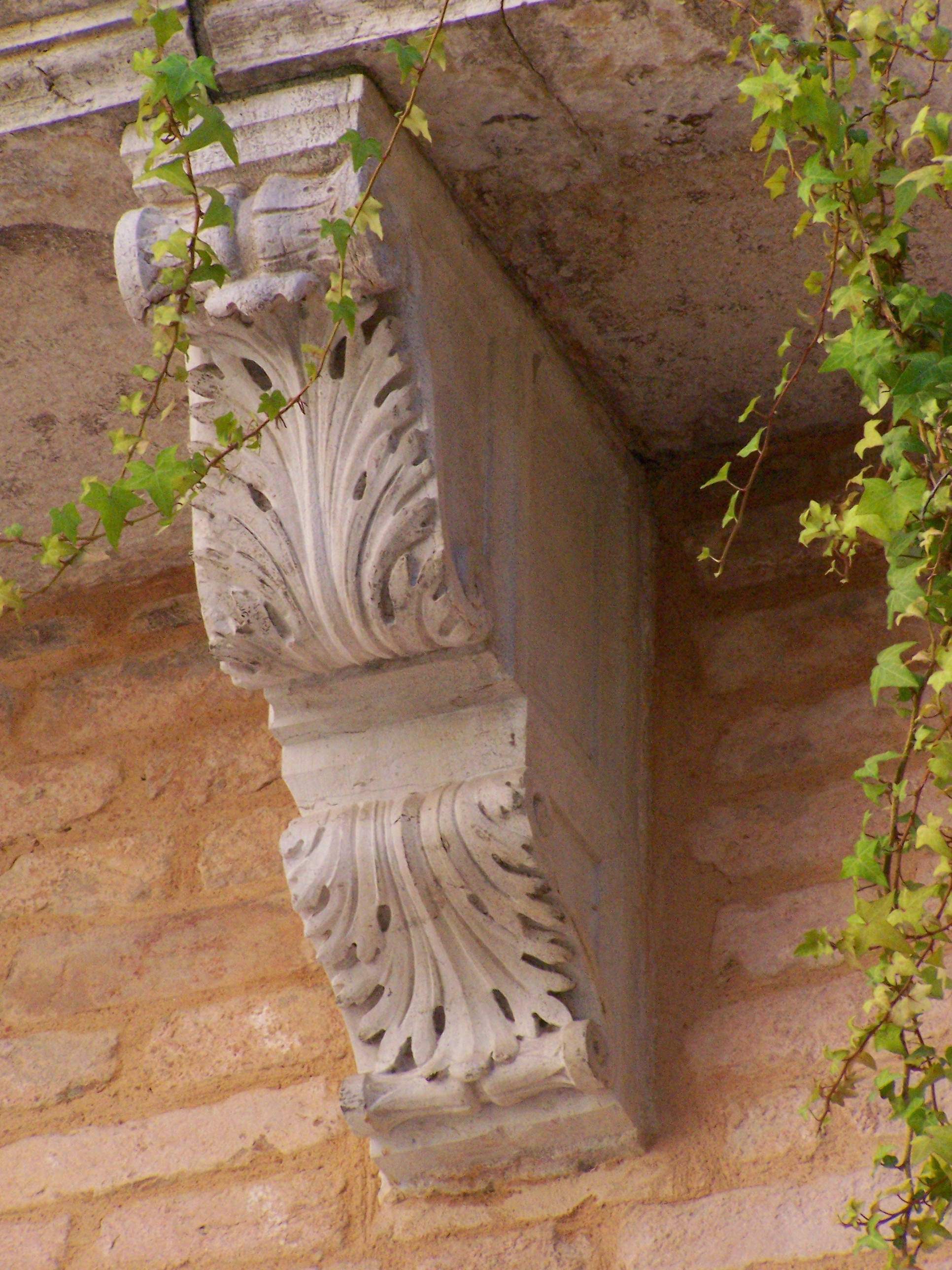 Carved stone corbel in Venice, Italy